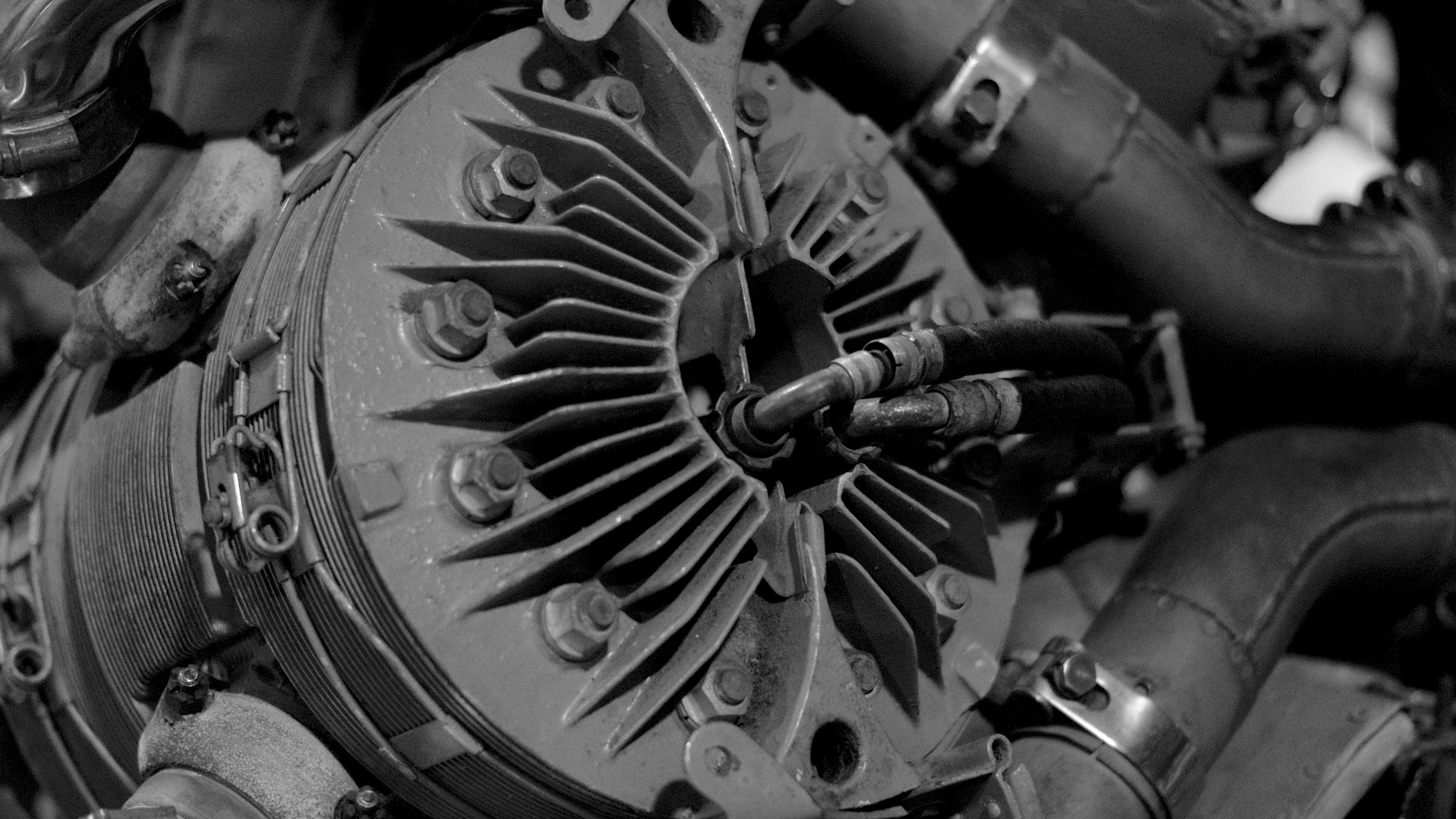 One of the eighteen cylinders on the Bristol Centaurus 53litre radial engine from a Hawker Sea Fury.